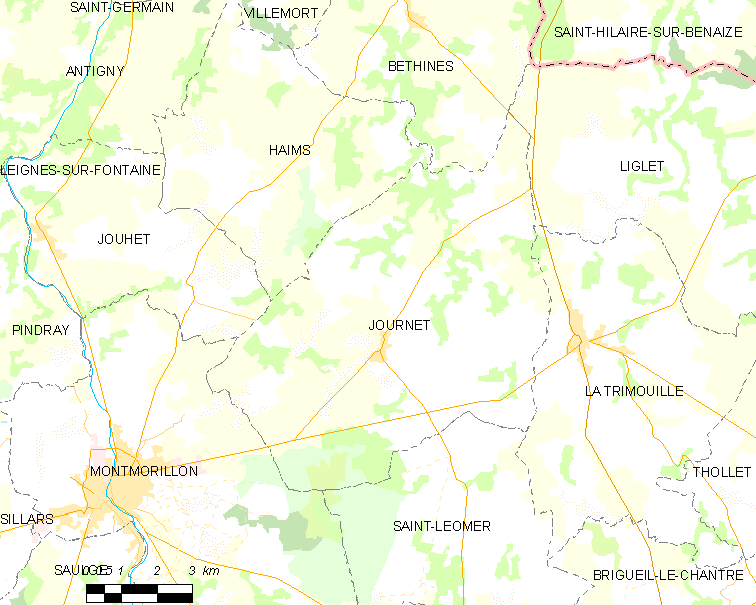 Map of French municipality Journet